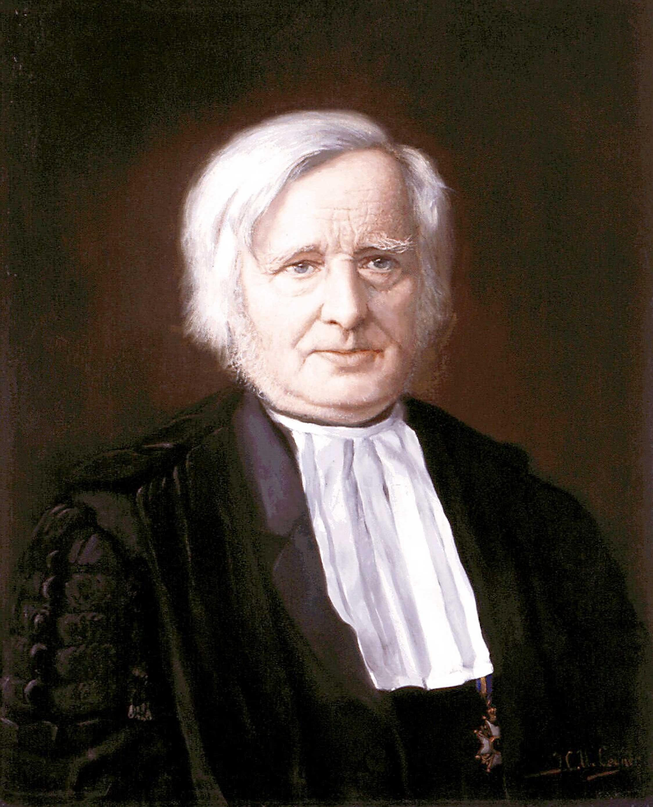 Barthold Jacob Lintelo de Geer van Jutphaas (1816-1903) juristen, historici, politici en oriëntalist